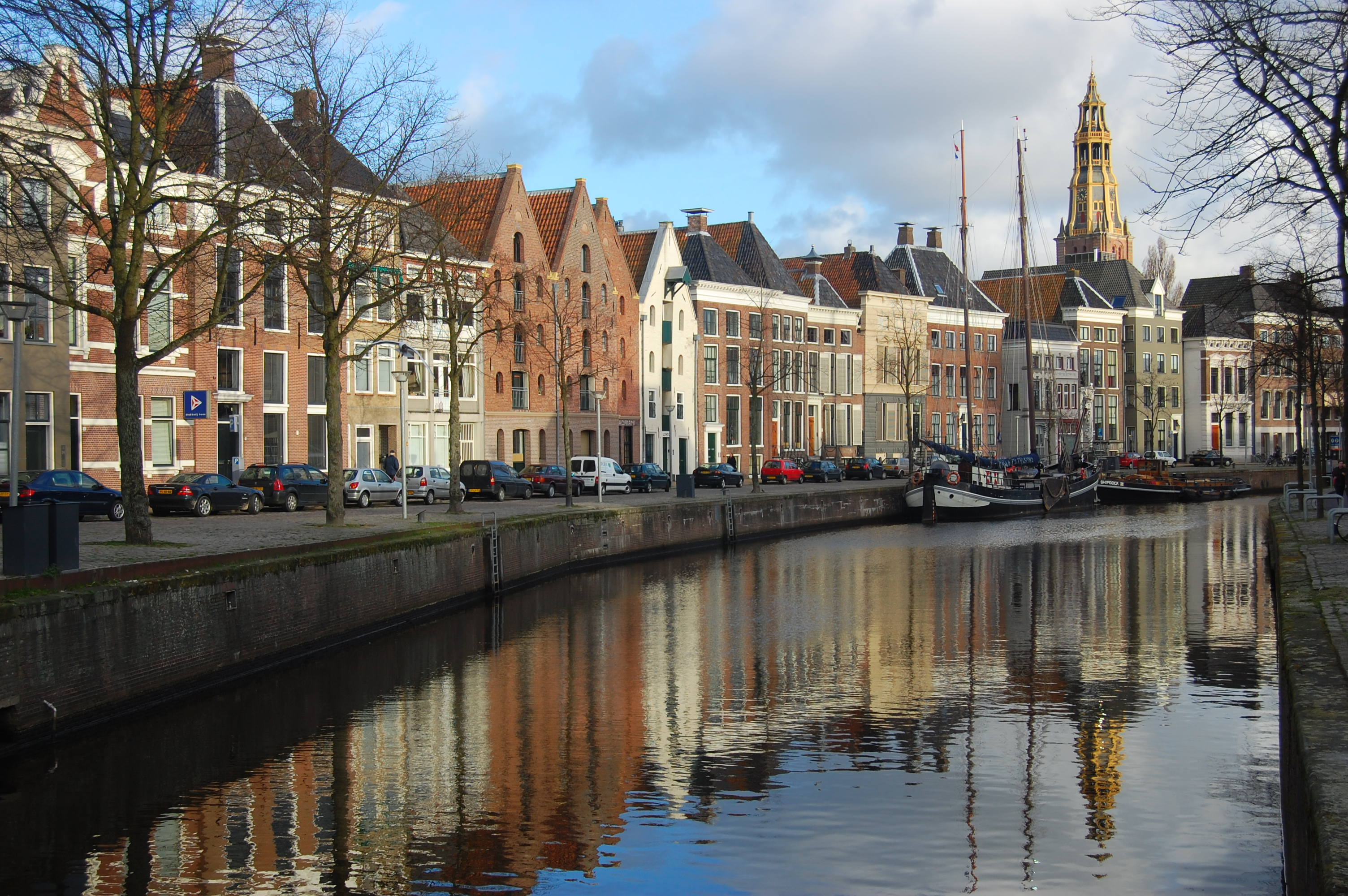 Old warehouses along the Hoge der Aa canal in the city of Groningen, the Netherlands. In the background, the tower of the A-kerk (A-church) can be seen